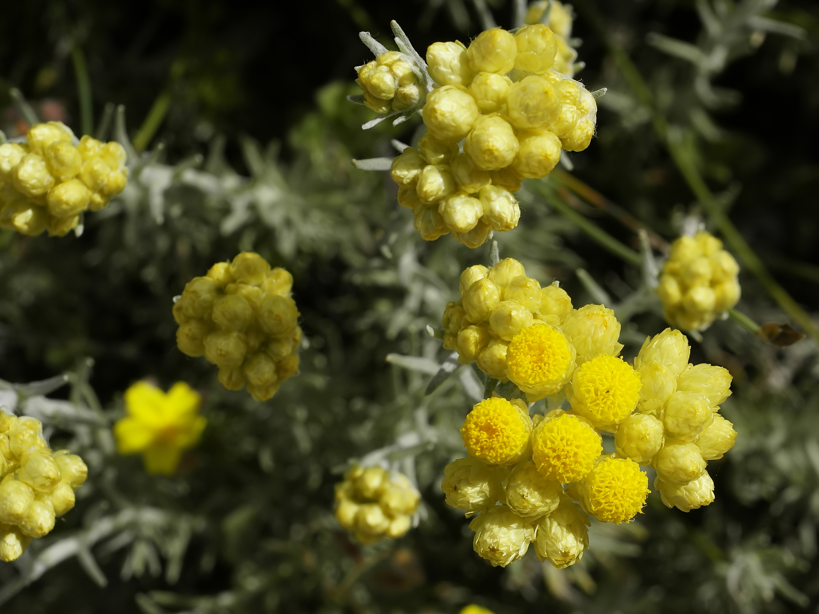 near el Perelló, Catalonia, Spain